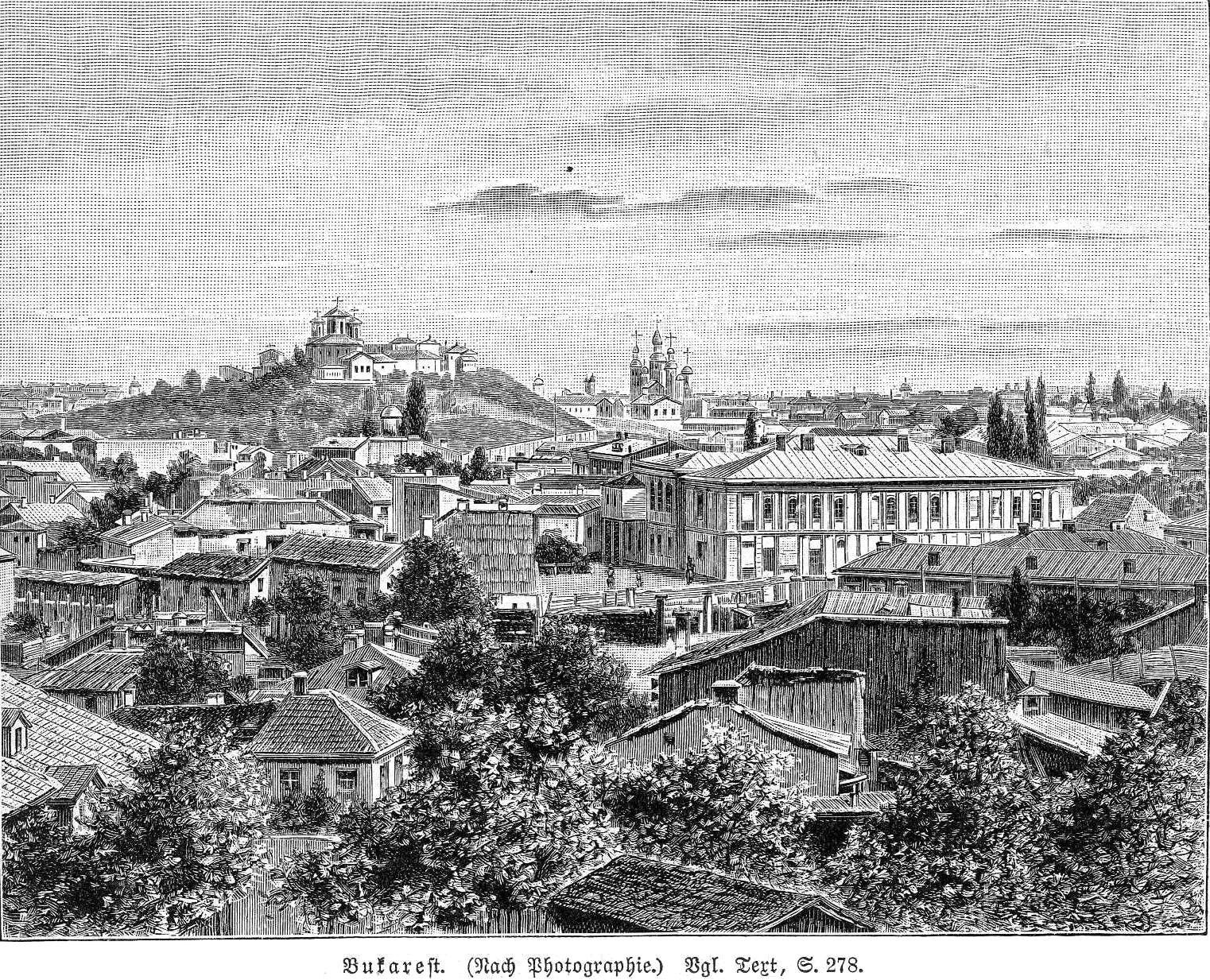 Bucharest around 1900.